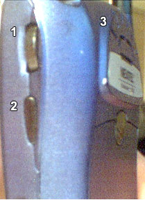 Side/back view of BlackBerry 7510